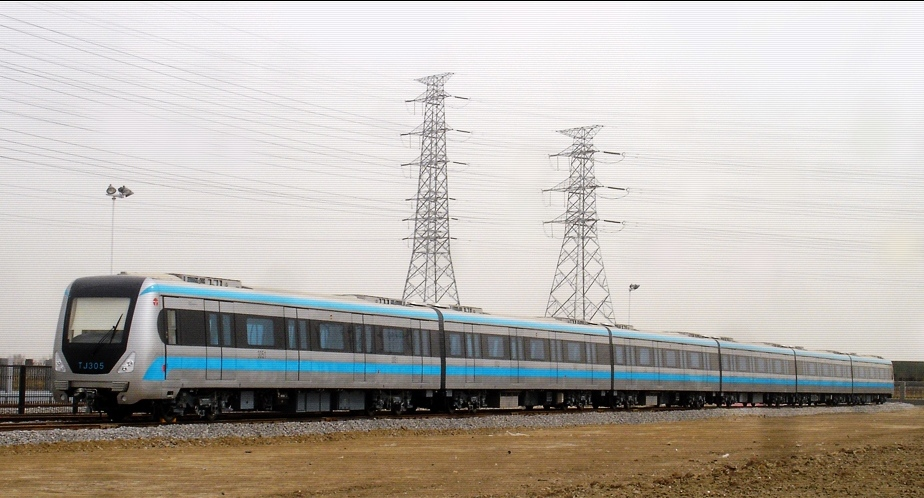 天津地铁3号线305车组于中国南车天津工厂内